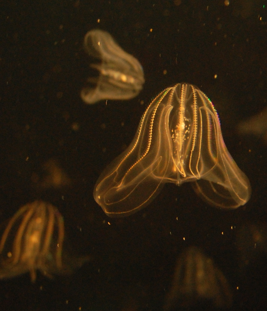 Sea walnut (Mnemiopsis leidyi) at the New England Aquarium, Boston MA.